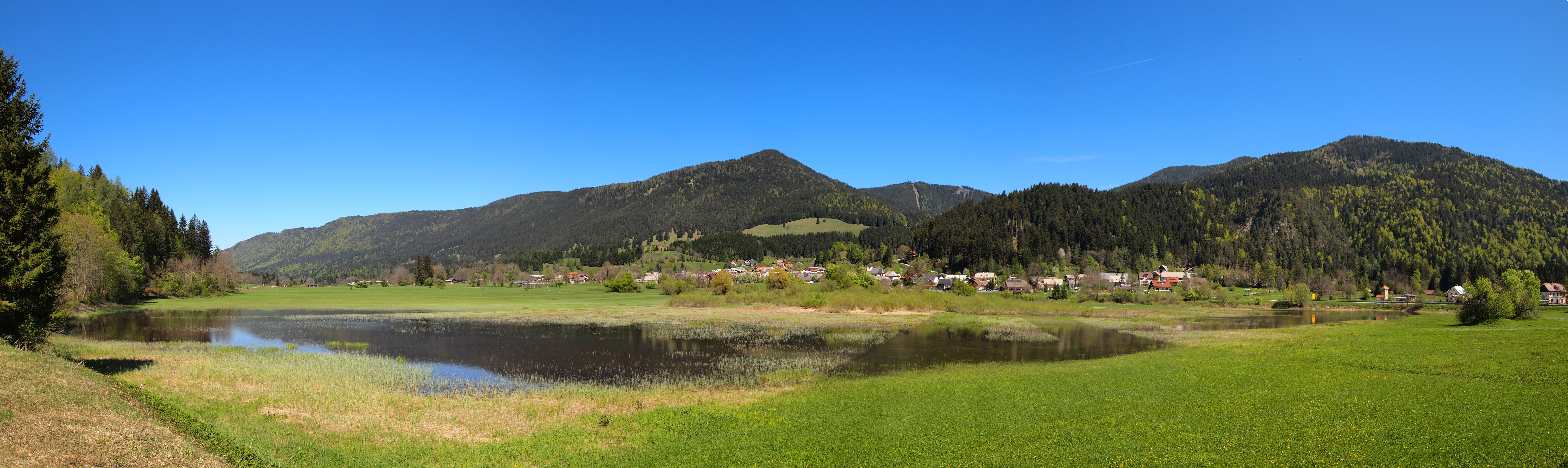 View of a pond in Rateče. This photograph was taken with an Olympus E-PL1